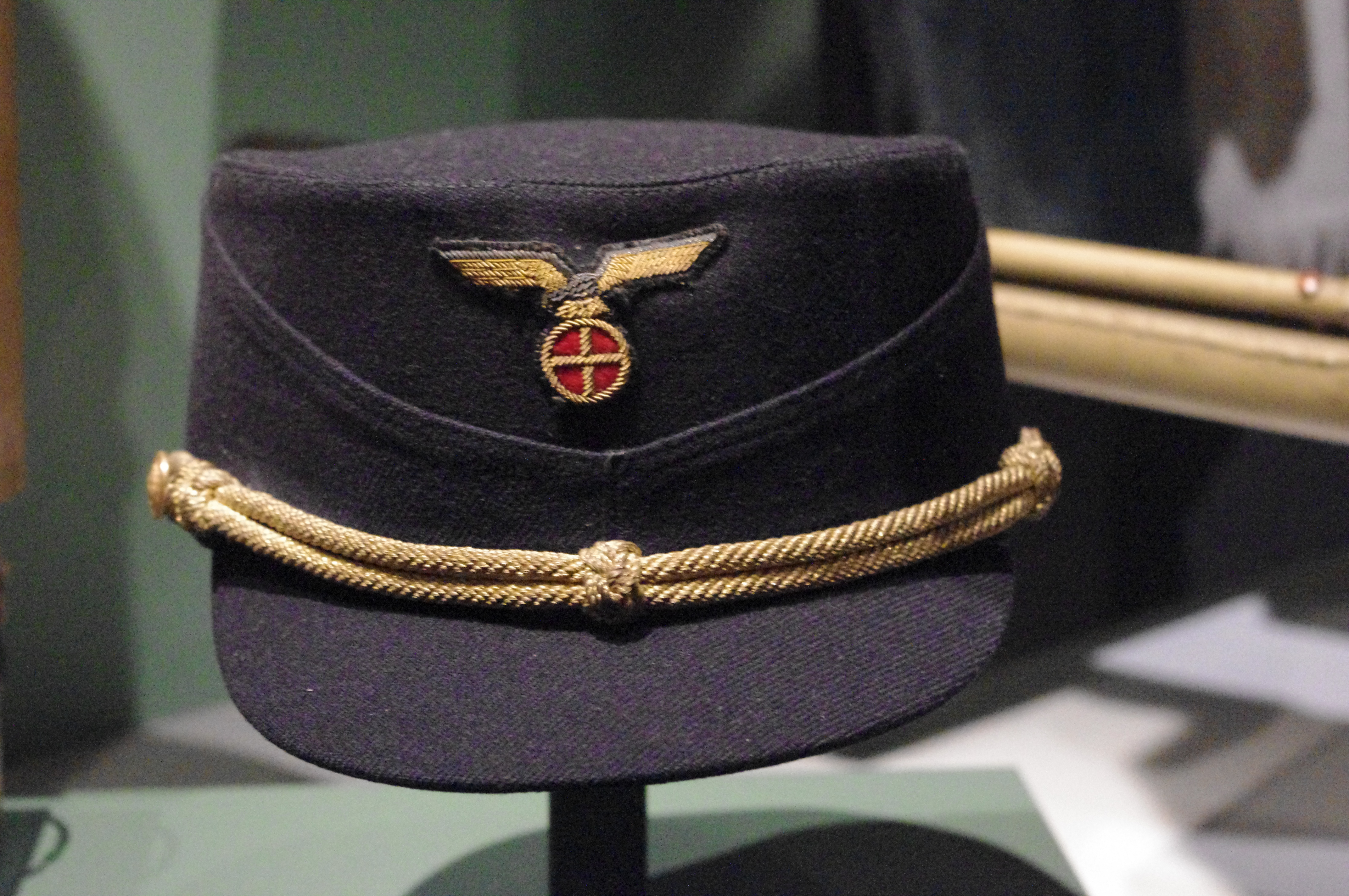 Peaked cap worn by Vidkun Quisling (1887-1945) when he was arrested in 1945. The cap carries the emblem of the paramilitary wing of Nasjonal Samling, the Norwegian fascist party.